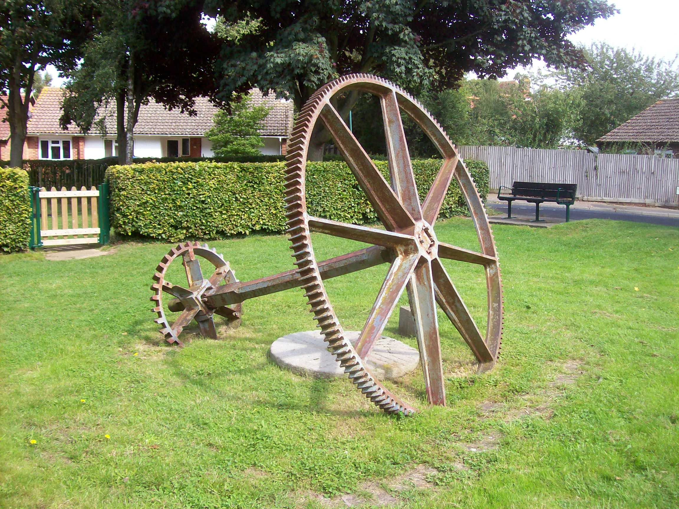 The wallower, upright shaft and great spur wheel of Black Mill, Barham displayed on Barham village green.